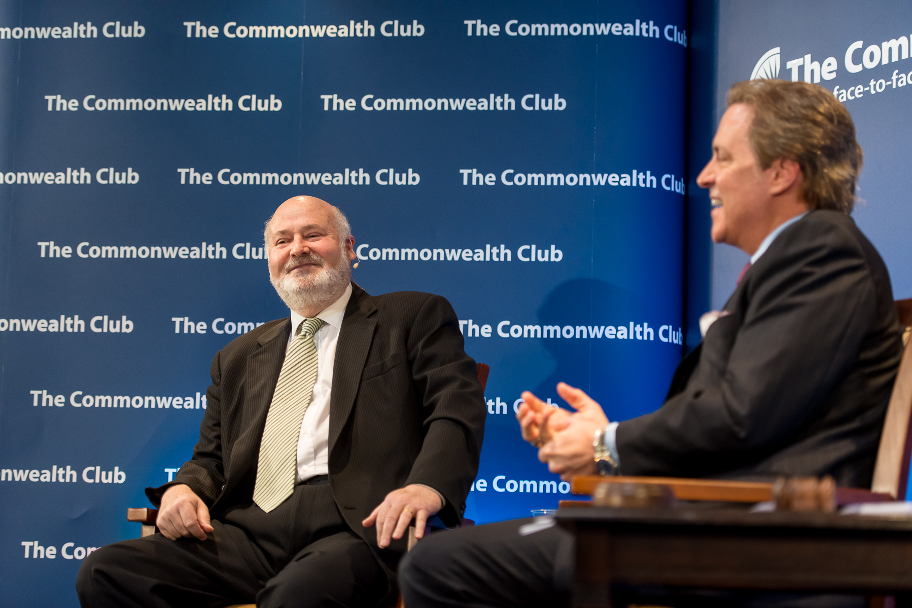 Actor/director/activist/businessman Rob Reiner (left) was in conversation at The Commonwealth Club with ABC 7 news anchor Dan Ashley. Feb. 1, 2013, photo by Ed Ritger.